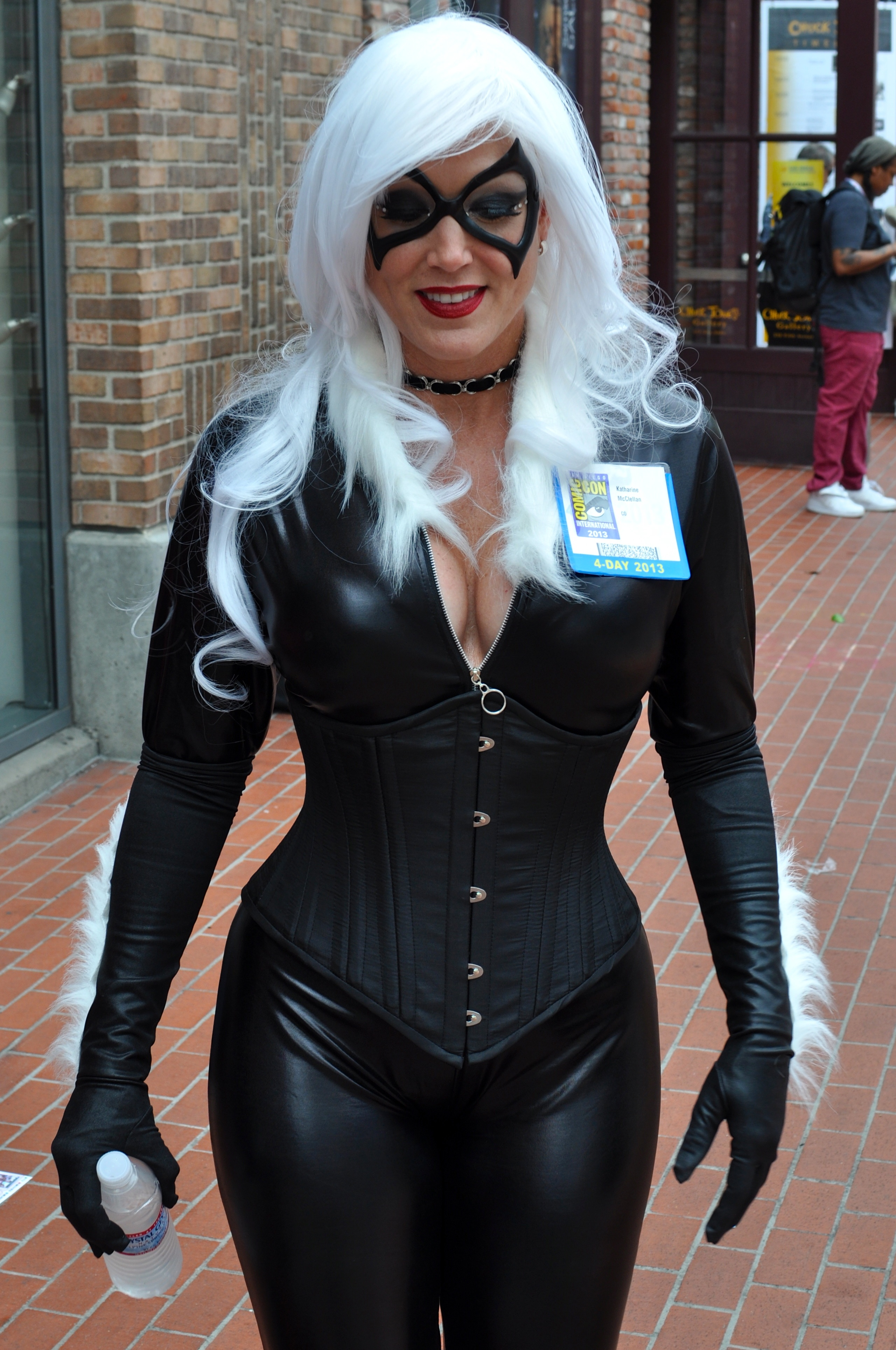 Cosplay at San Diego Comic-Con 2013.